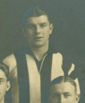 Photograph of George Kanngieser in 1935